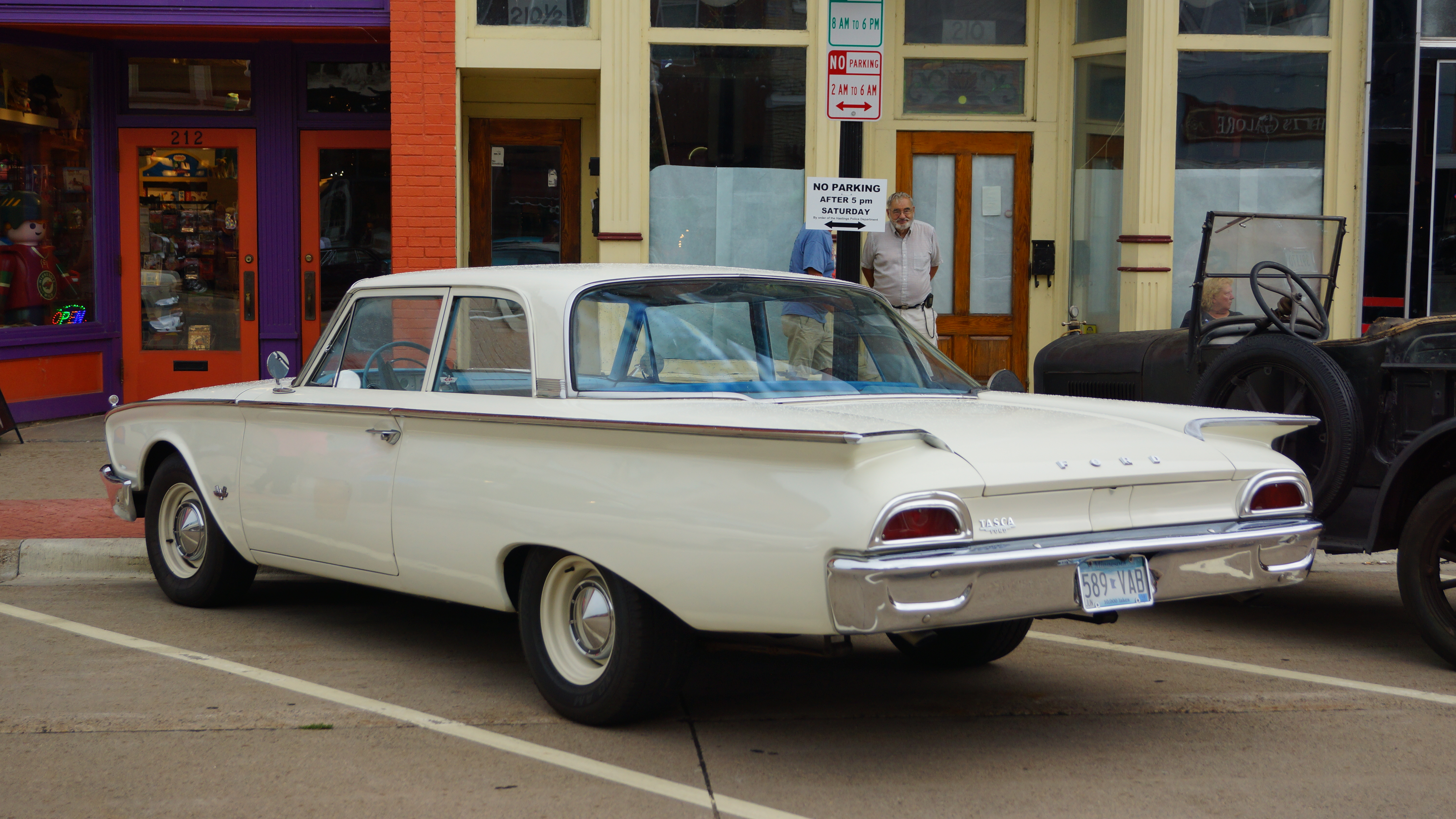 HISTORIC DOWNTOWN HASTINGS CRUISE-IN & CLASSIC CAR SHOW Hastings, Minnesota June 30, 2018 Click here for previous Hastings Cruise Night pictures.. Click here for more car pictures at my Flickr site. Or here for my Car Crazy Tumblr site. Or on Twitter @DVS1mn.